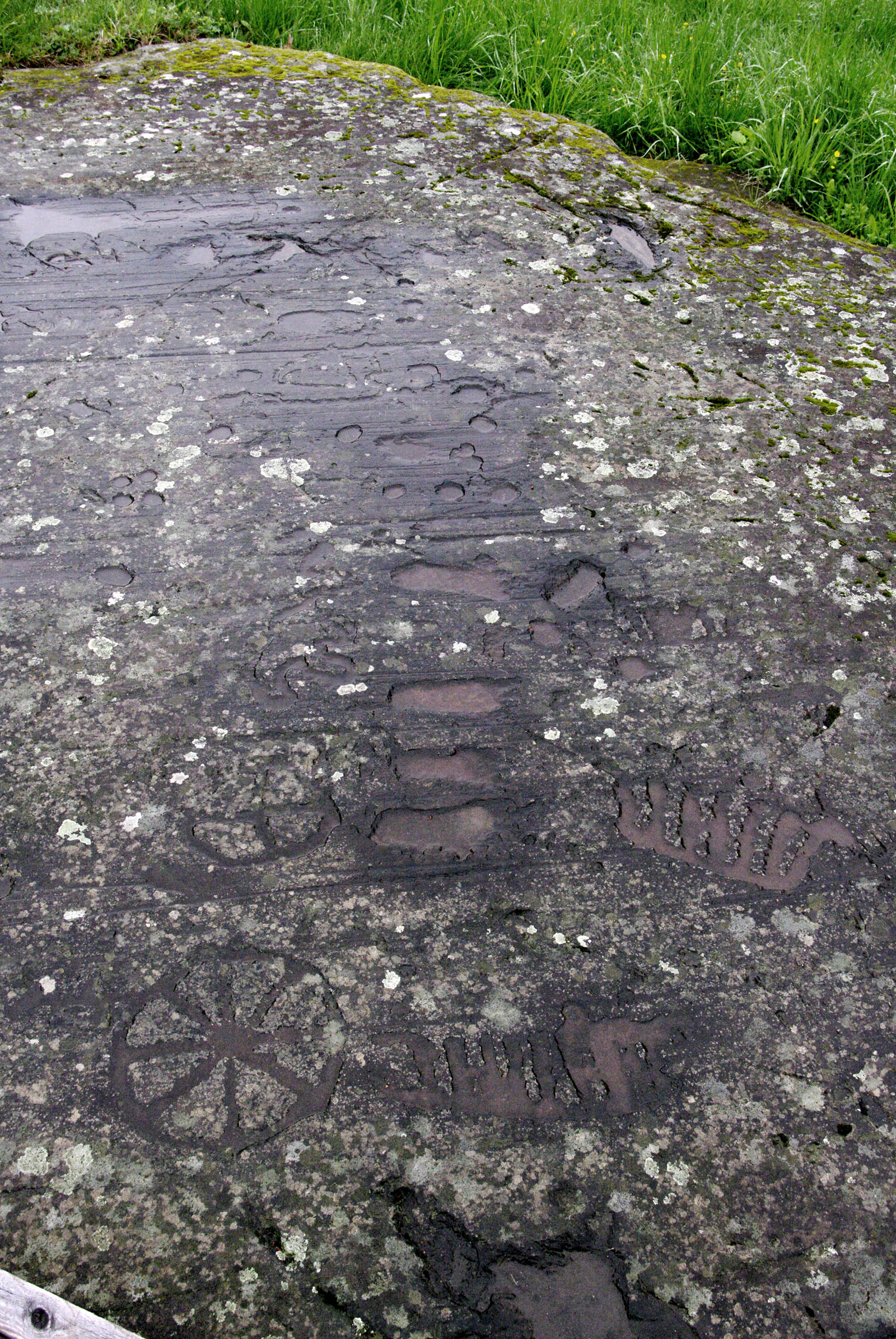 Rock carvings from bronzeage about 1000 B.C. from Flyhov, Sweden.